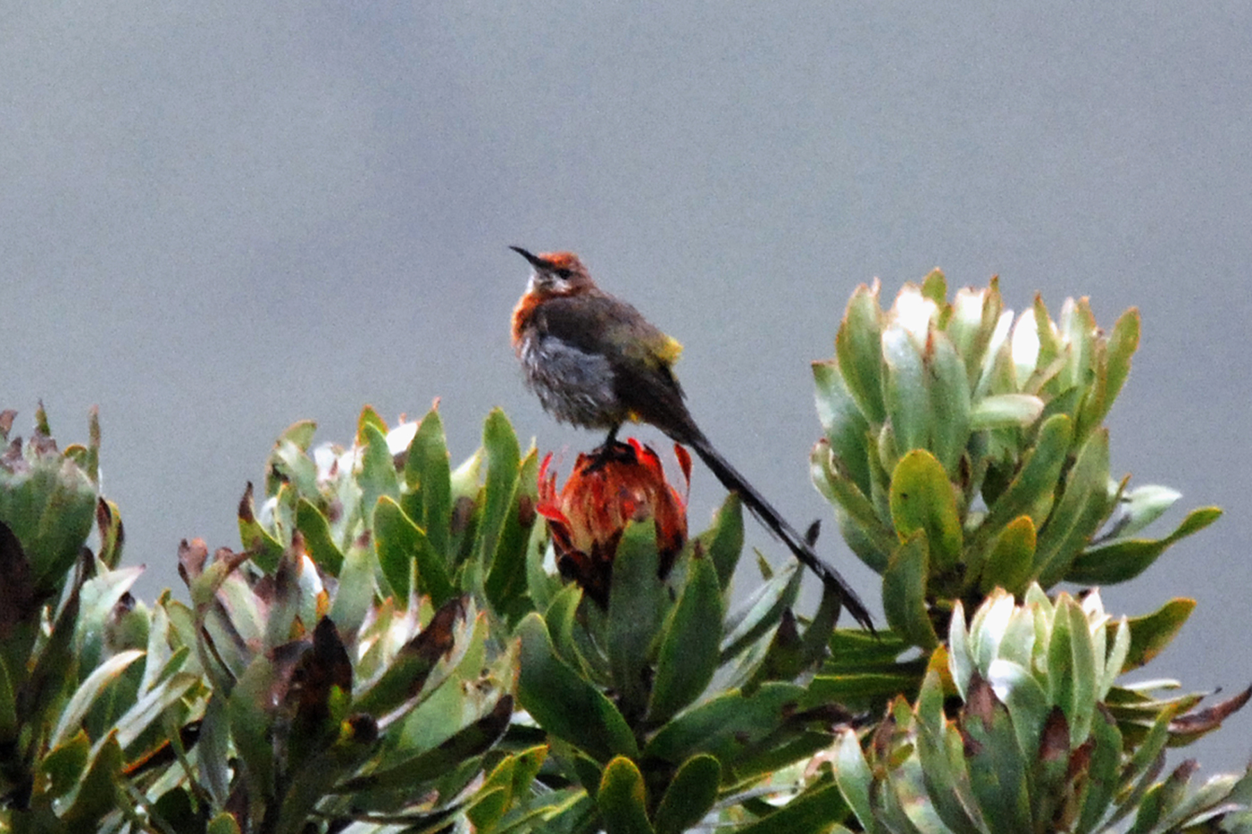 Gurneys Sugarbird (Promerops gurneyi) on a flower, KwaZulu-Natal, South Africa